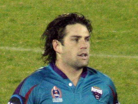 Joel Clinton Photo